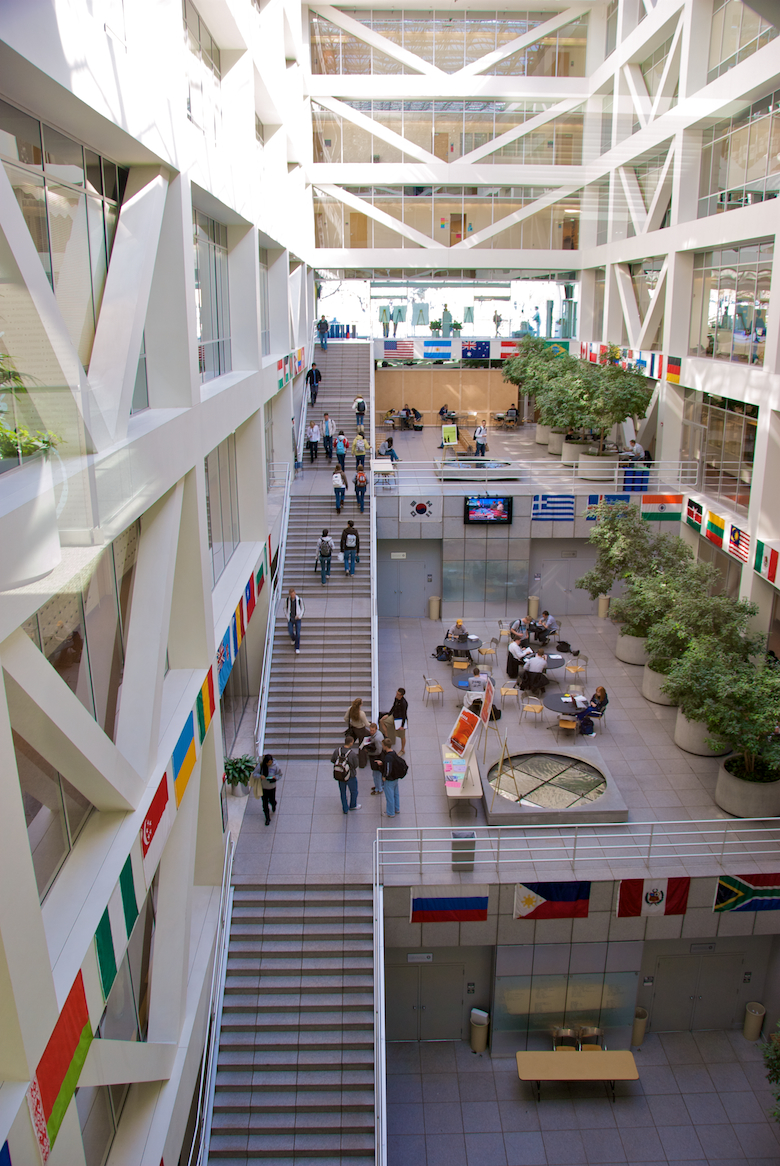 BYU Sharp TV Spec 20